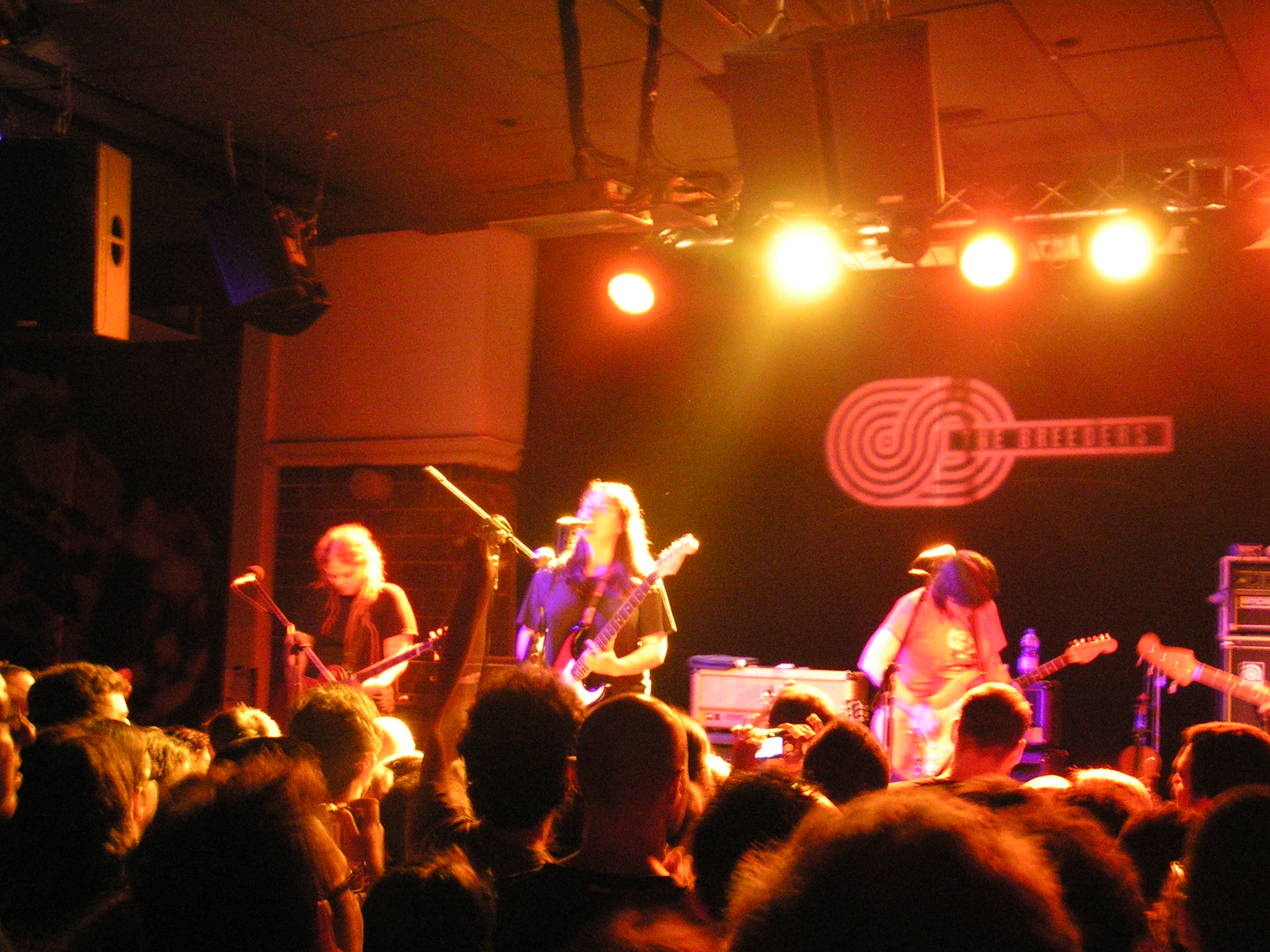 The Breeders live in the Zappa club, Tel Aviv, Israel, August 22, 2008